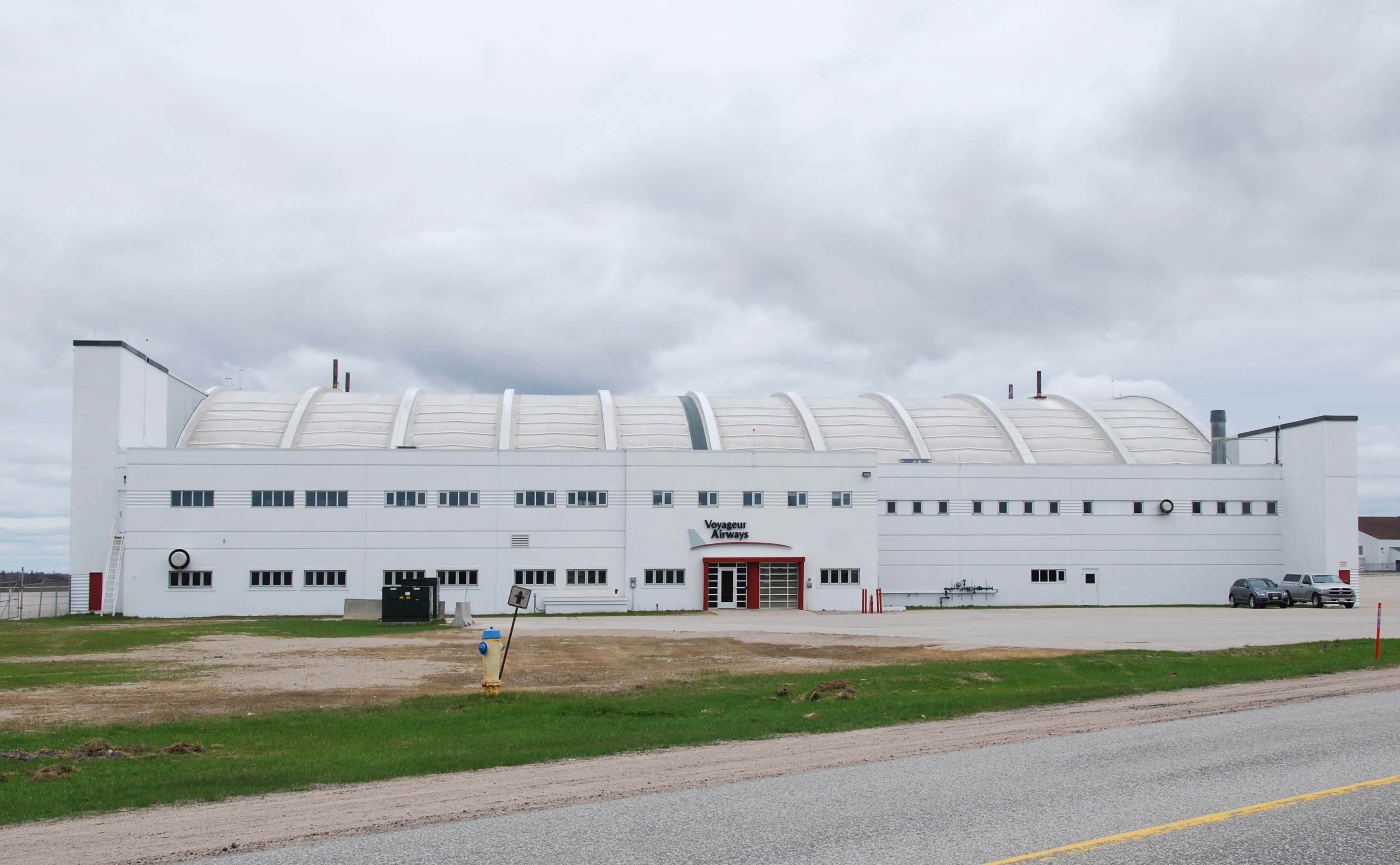 The corporate headquarters of Voyageur Airways at Jack Garland Airport in North Bay, Ontario.